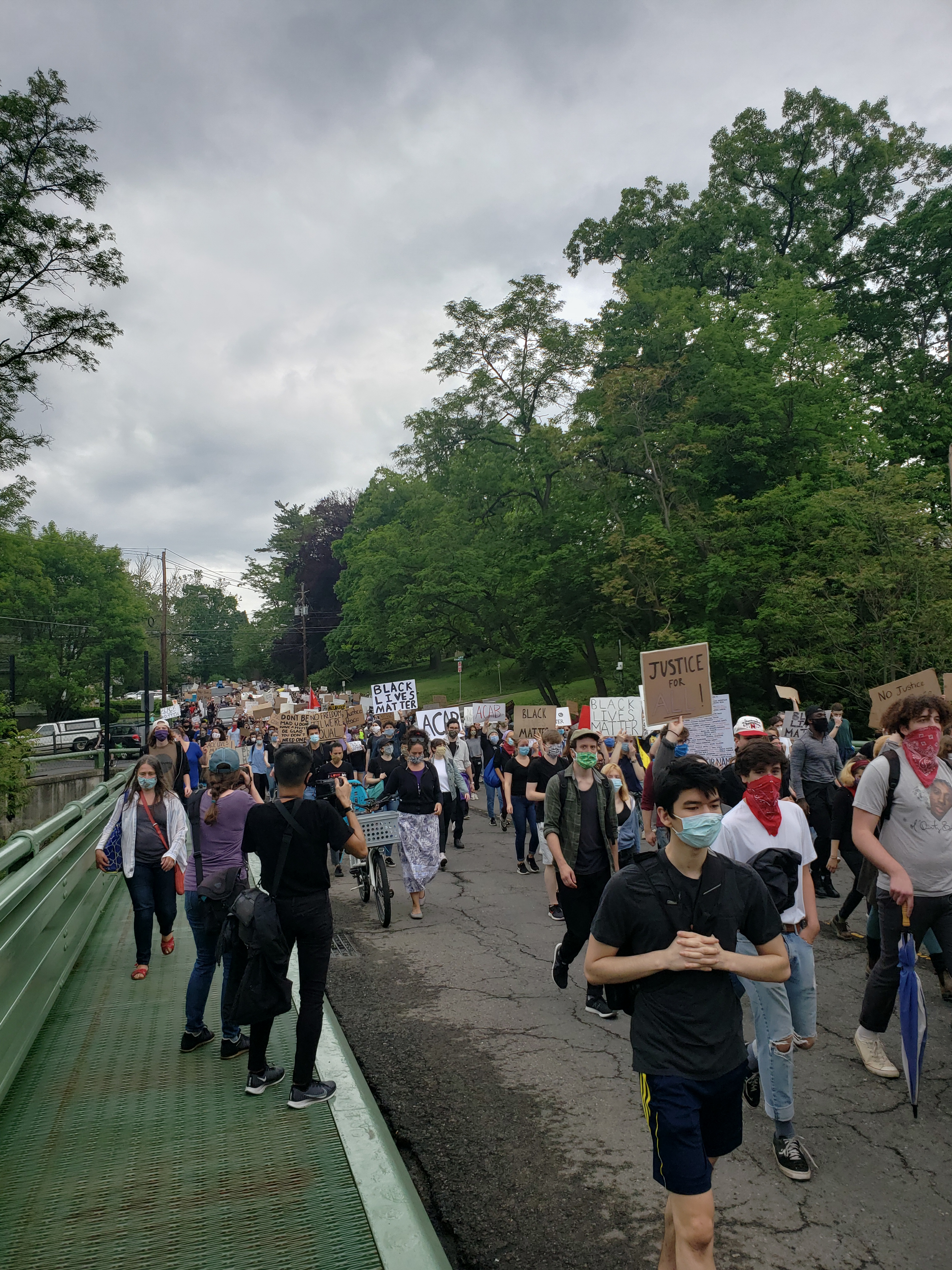 Photo in Ithaca, NY, on June 3rd from march following George Floyd's murder.